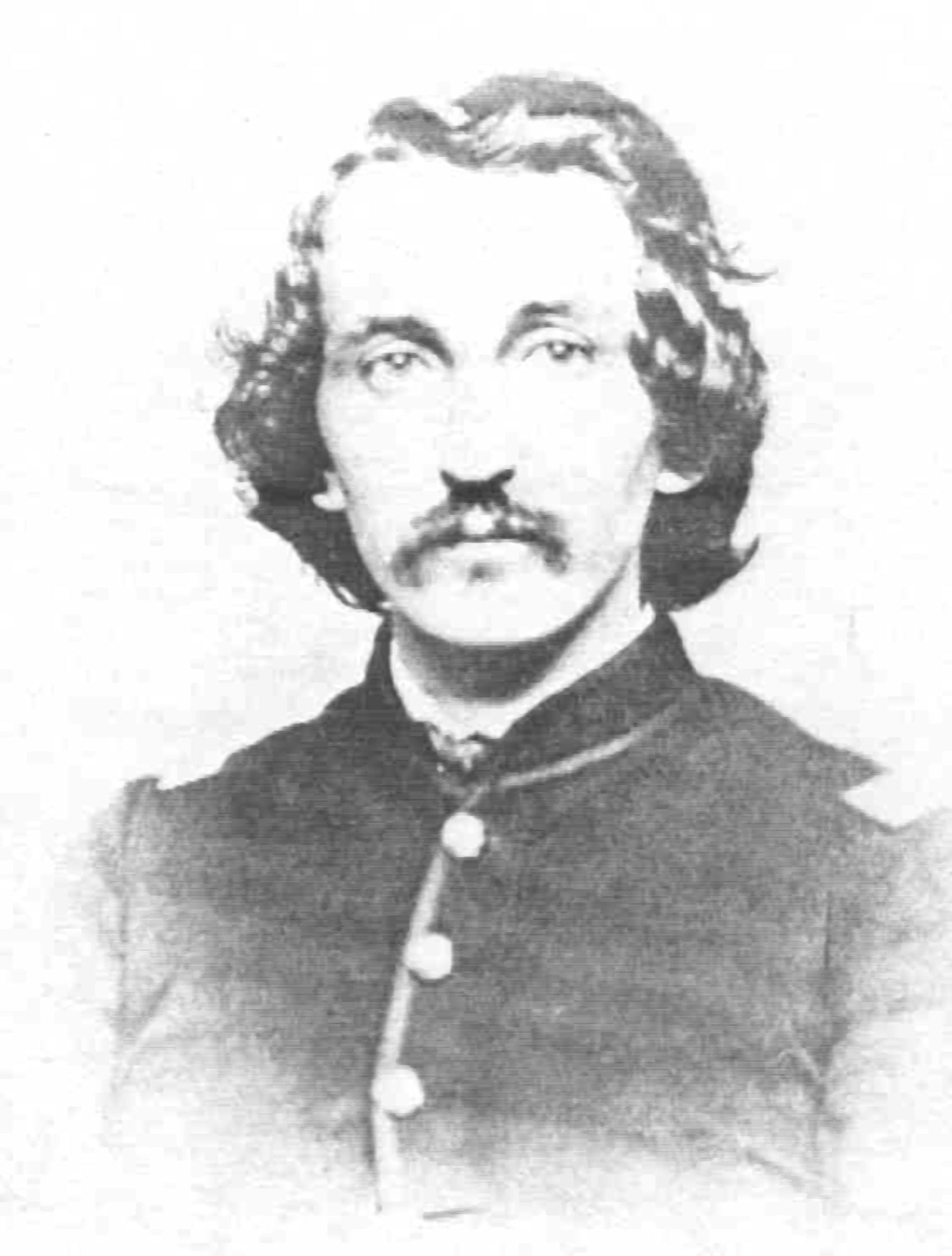 Medal of Honor winner